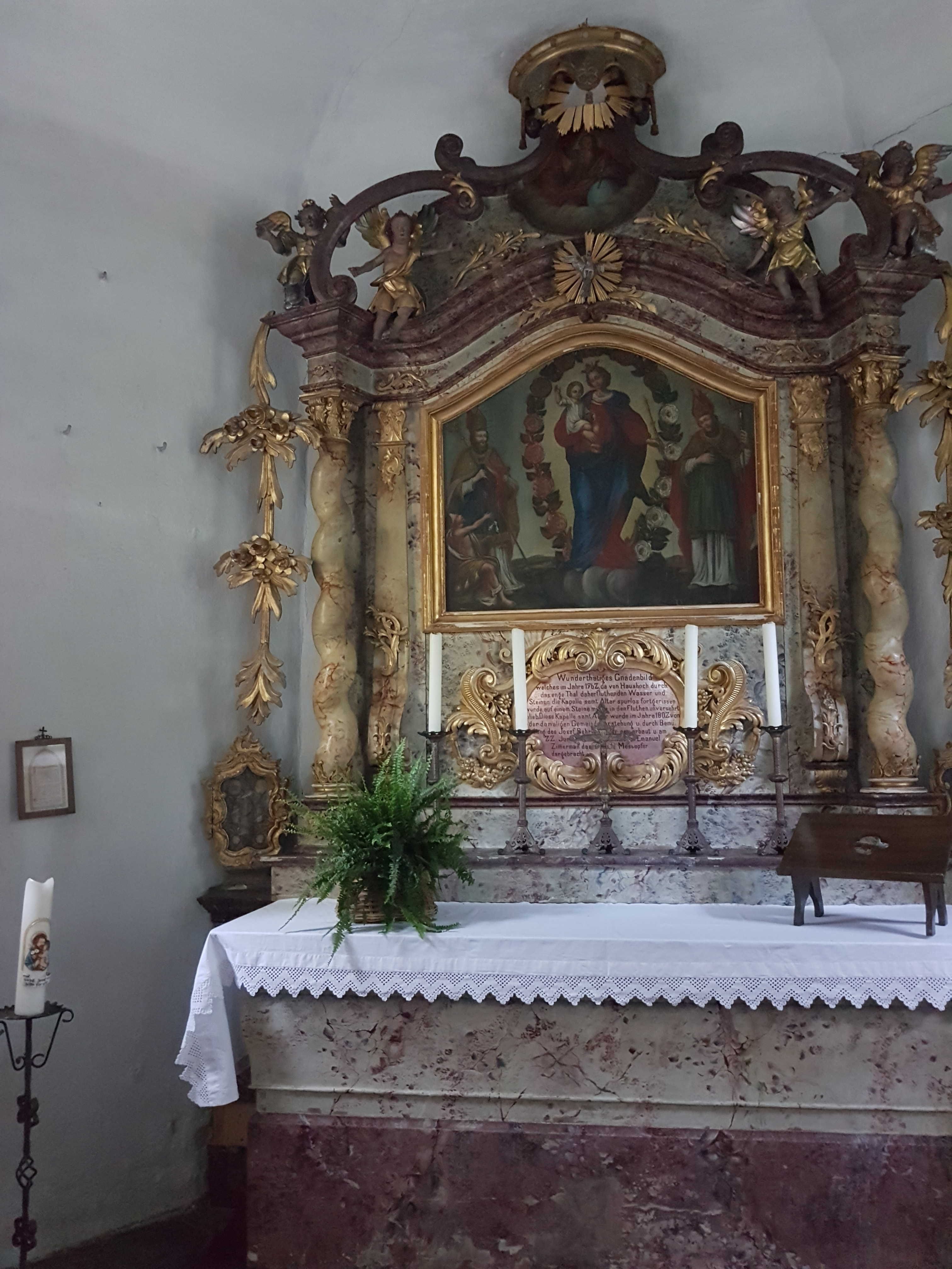 Pilgrimage chapel Kuehbruck (Our Lady of the Rosary) in the municipality of Nenzing, Vorarlberg, Austria. Built in 1806. Altar.